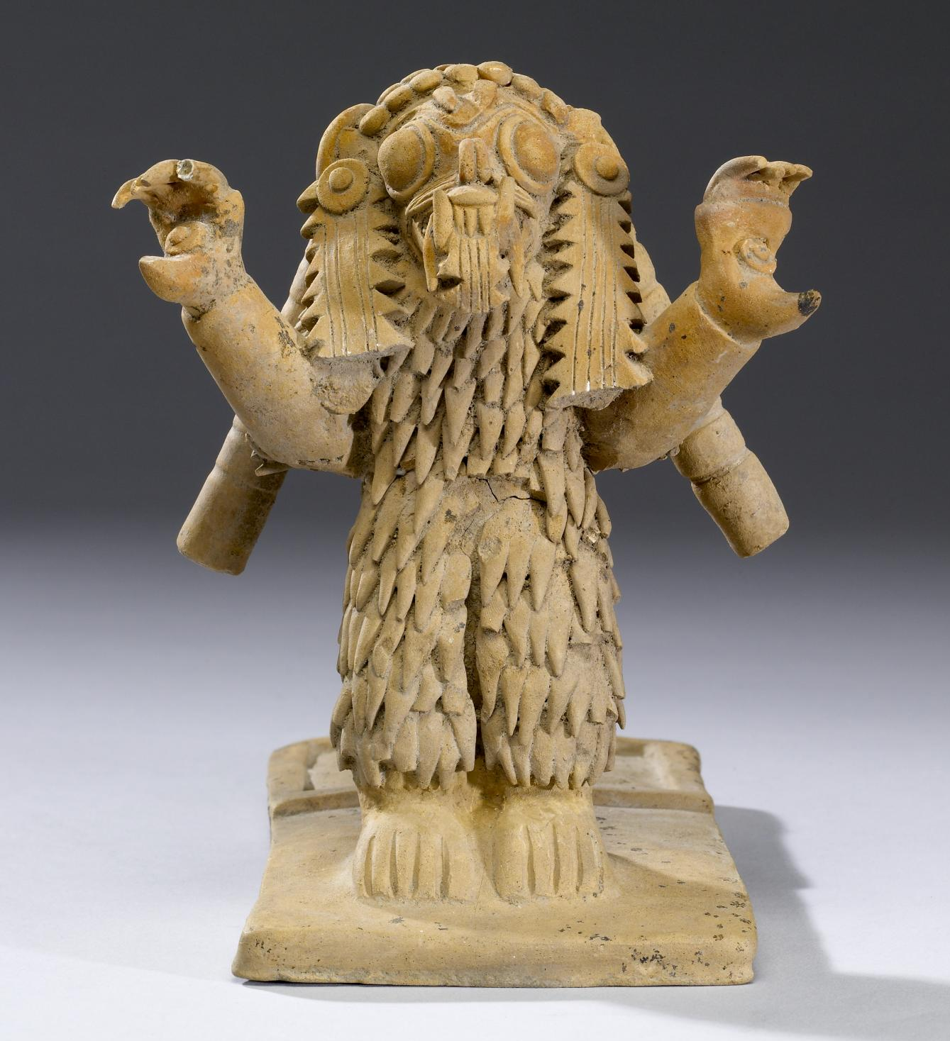 As an outgrowth of the earlier Chorrera ceramic sculptural tradition, Jama-Coaque pottery focuses on the human figure and the portrayal of ritual life. Most Jama-Coaque ceramic figures were formed from molds, and hand modeling completed the piece. Here, however, no evidence of mold construction is discernible, the lively figure and its attached tray being modeled entirely by hand. In addition, the figure's animated and threatening pose diverges from the majority of Jama-Coaque ceramic figures, which typically are more static in body position and attitude. The figure portrays a spirit being or perhaps a shaman in spirit form ready to battle supernatural forces. The being's teeth and clawed paws recall those of the jaguar, here with an especially shaggy fur. The jagged tongue and rectangles hanging from the ear ornaments may refer to the being's supernatural powers. Shamanic transformation was aided by the ingestion of psychoactive plants ground into a fine powder and ingested as a snuff, which was served on trays such as this figural example.